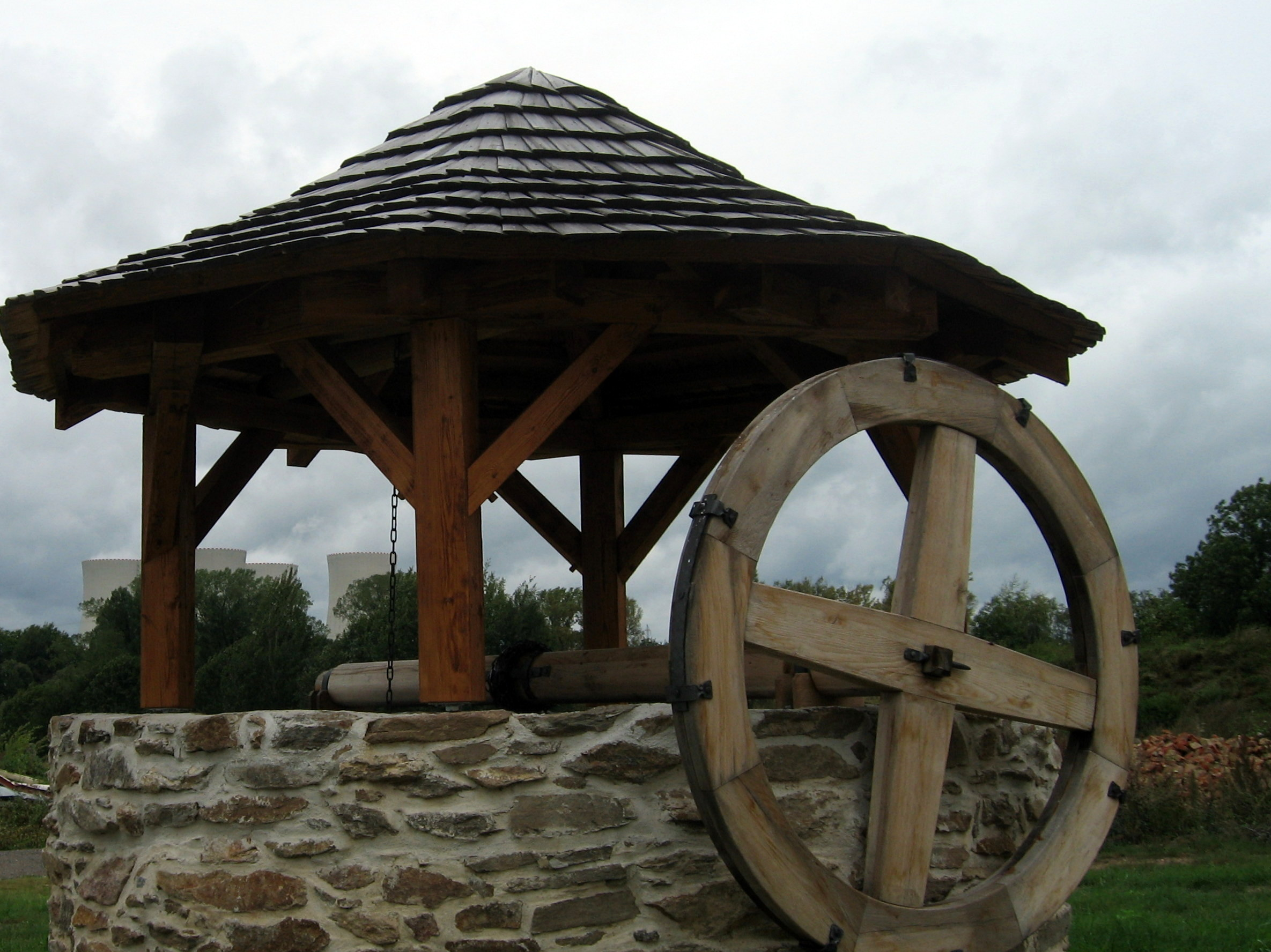 Well fortress Býšov (district České Budějovice). In the background Nuclear power plant Temelin.